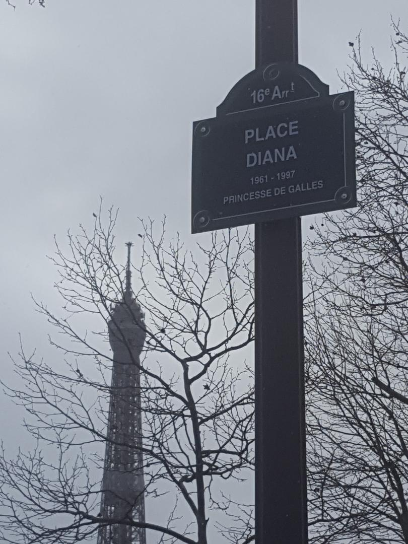 Diana Square in Paris and Eiffel Tower